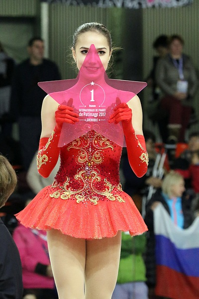 Alina Zagitova at the Trophée de France 2017 - Awarding ceremony